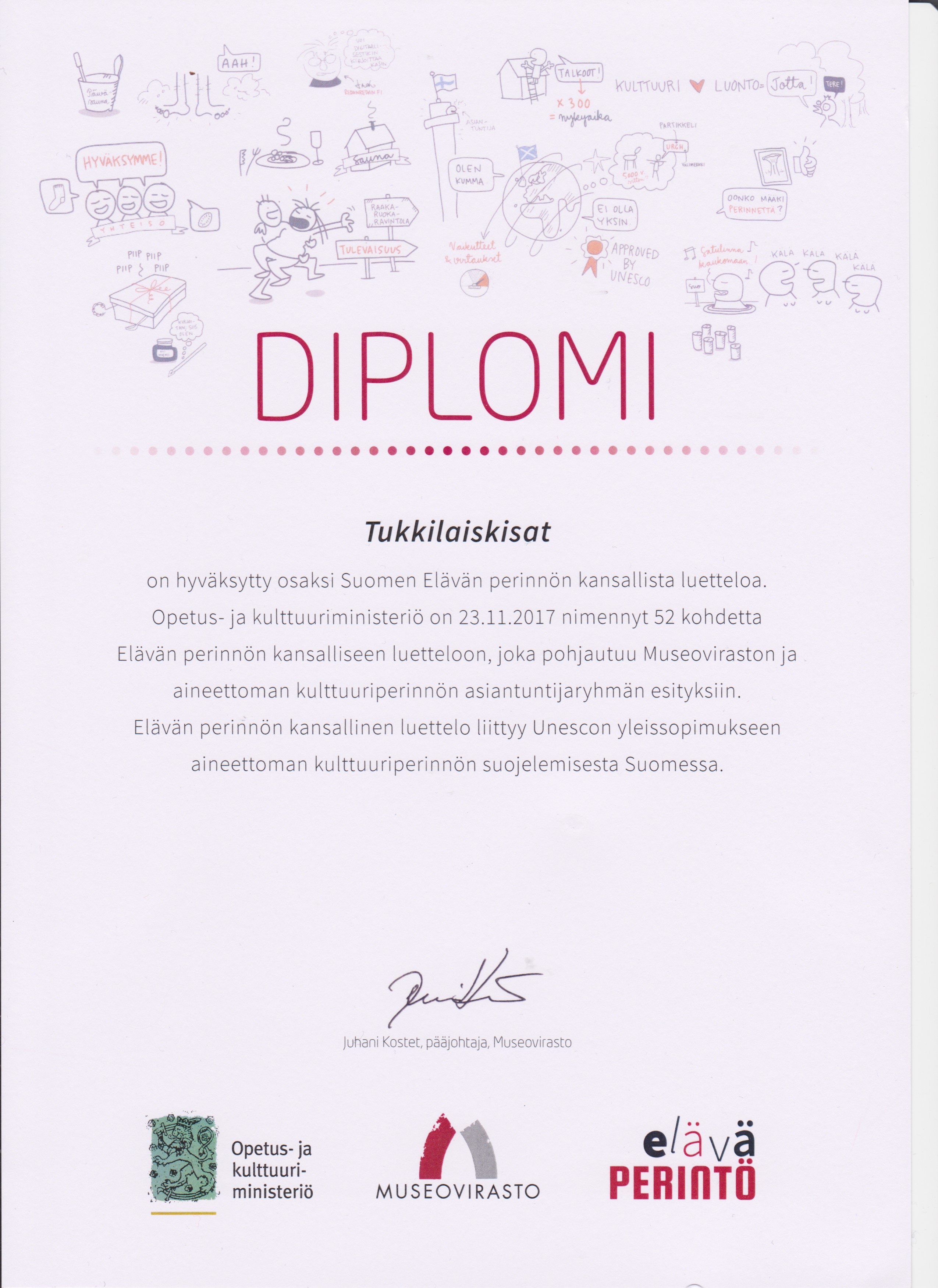 National Inventory of Living Heritage, 52 elements, Diploma for Log driver competitions in Finland